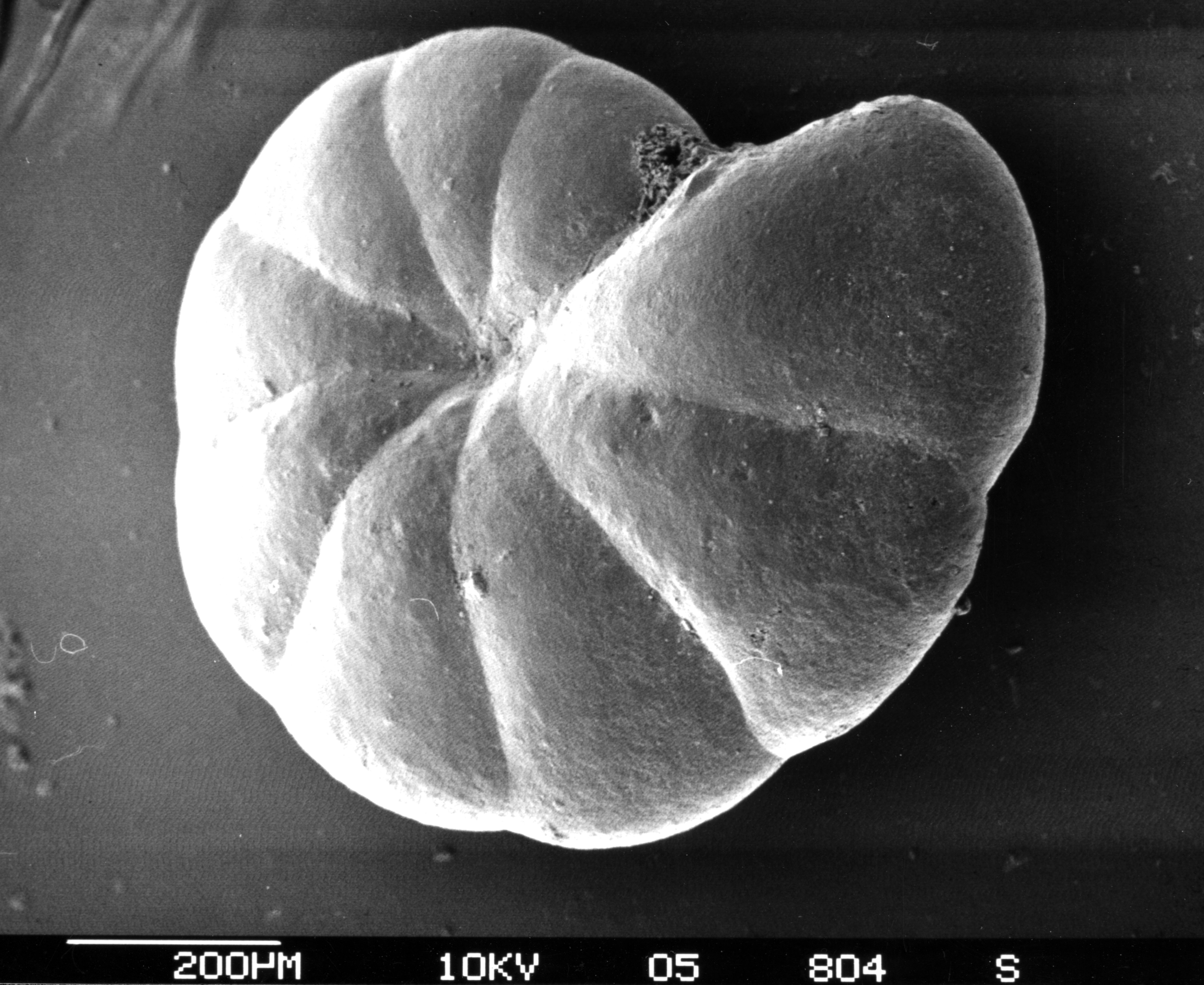 Microfossils from marine sediments - benthic foraminifera Cibicidoides sp.